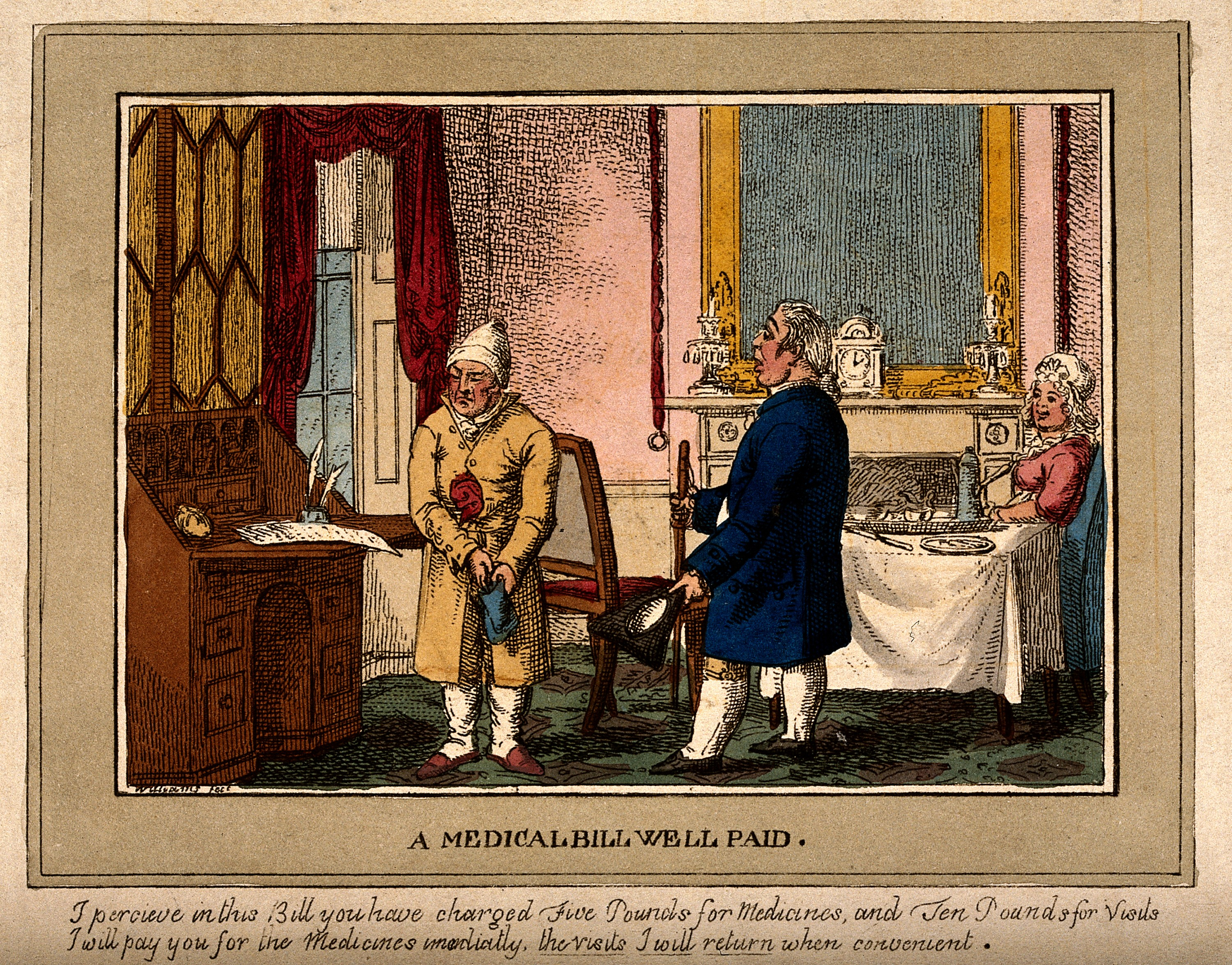 A doctor and his patient talking at cross purposes. Coloured etching by C. Williams, 1823. Iconographic Collections Keywords: Physicians; Caricatures; century; Charles Williams; costume - history - 19th centu; Patients; domestics; house furnishings - great brit; etchings